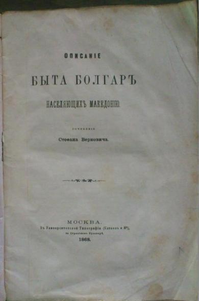 Cover of volume of „Описание быта Болгар, населяющих Македонию“, issued in 1868 in Moscow.